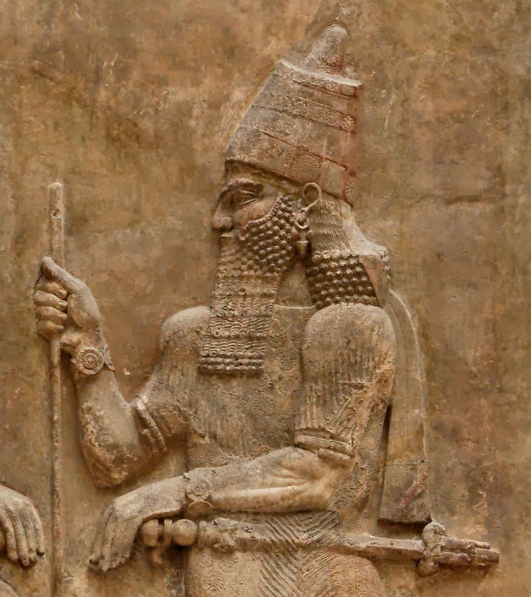 Sargon II and dignitary. Low-relief from the L wall of the palace of Sargon II at Dur Sharrukin in Assyria (now Khorsabad in Iraq), c. 716–713 BC. (particular)